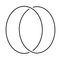 This picture shows the regular presentation of Hopf link. The link is a basic example of nontrivial link with more than one component in knot theory (mathematics). The regular representation, commonly used in the theory to indicate knots and links, represents projection onto 2-dimensional plane of the link. At each intersection, the below string is split a bit to indicate how the strings are arranged at that point.